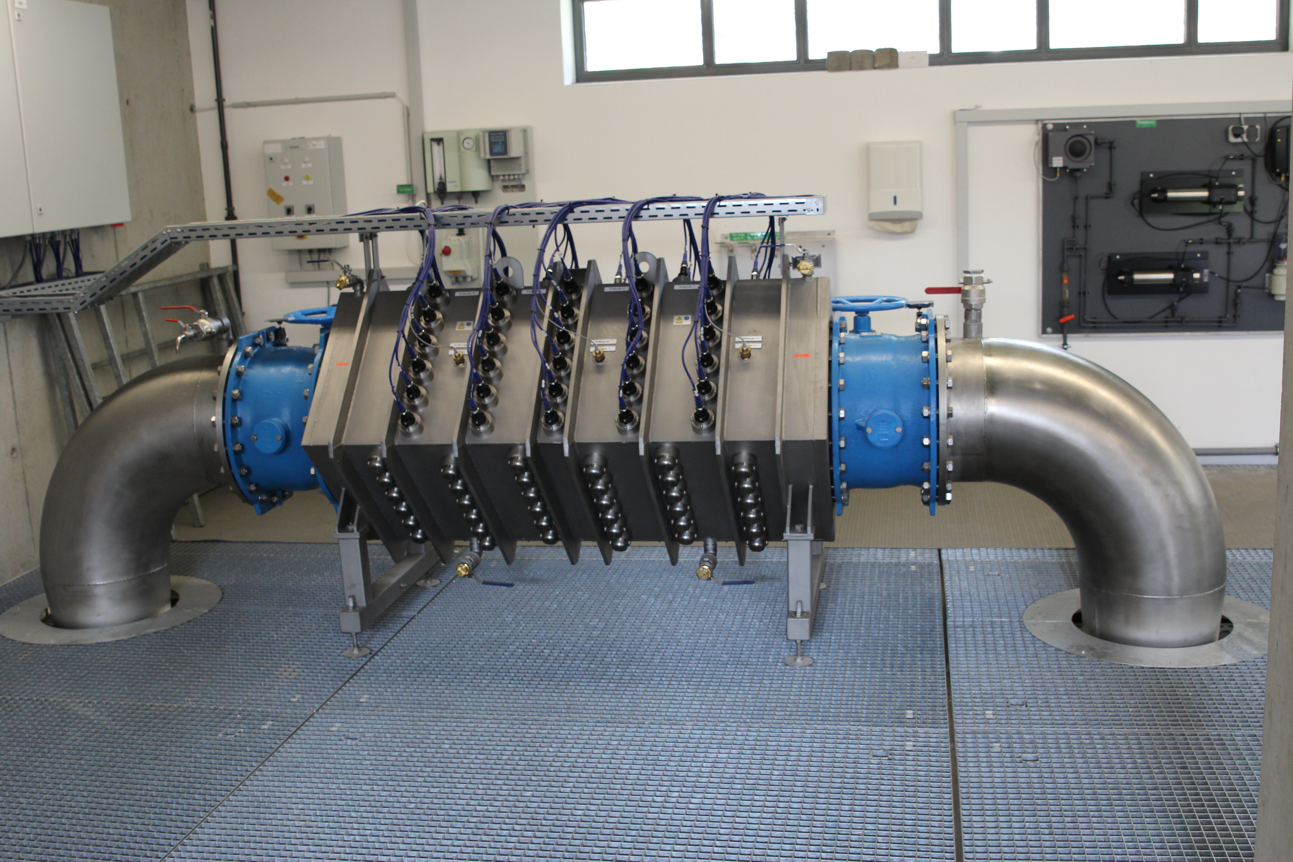 Emergency UV sterilization system in the Augsburger Wasserwerk at Lochbach